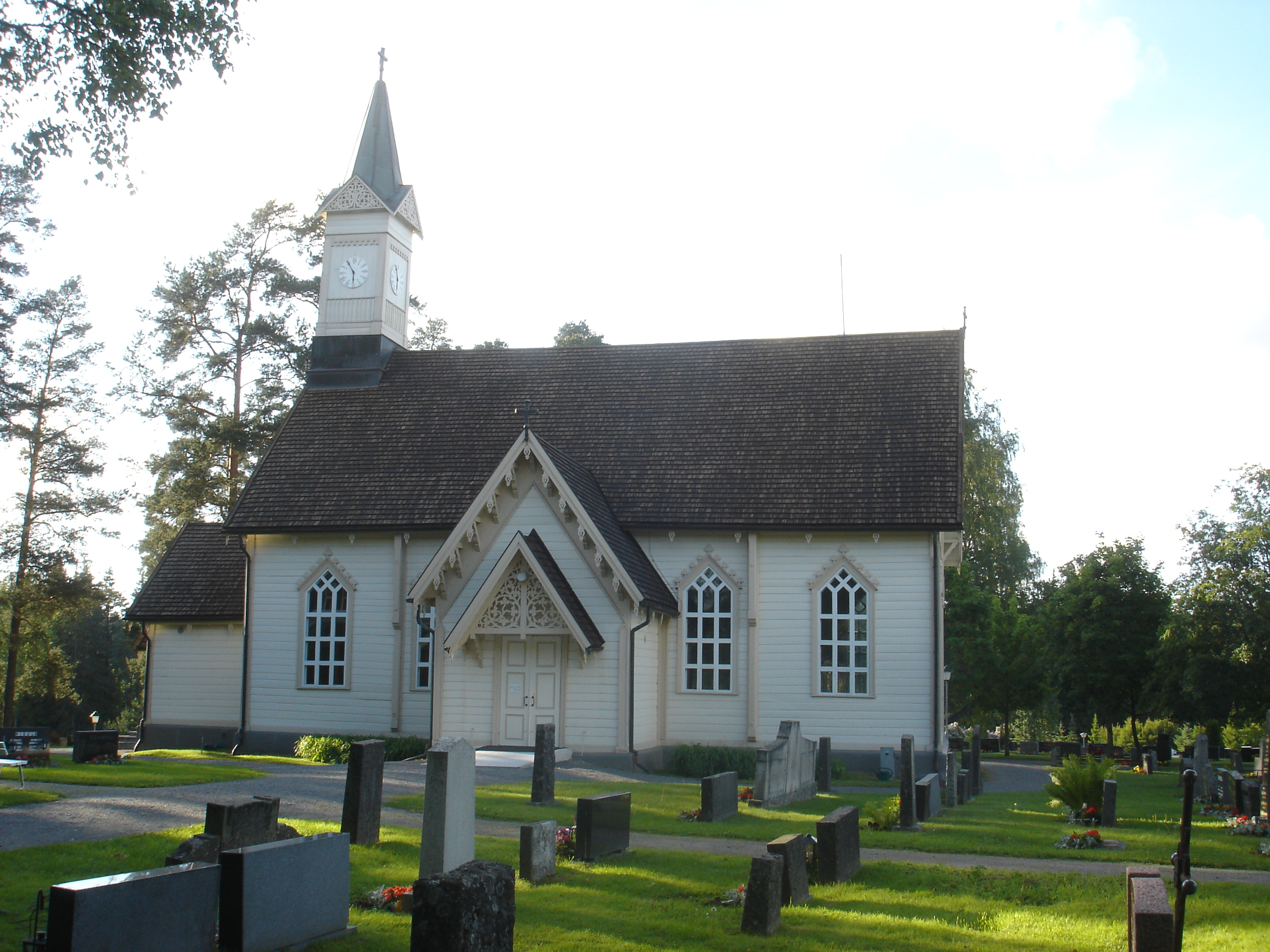 Church of Jokioinen